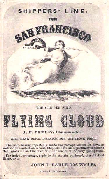 FLYING CLOUD Clipper ship sailing card. The fifth voyage that the Flying Cloud made to San Francisco started 18 February 1855, under Captain Creesy arrived in San Francisco 6 June. See version in State Street Trust Co. in "Yankee Ship Sailing Cards, Vol. III', Figure 16.